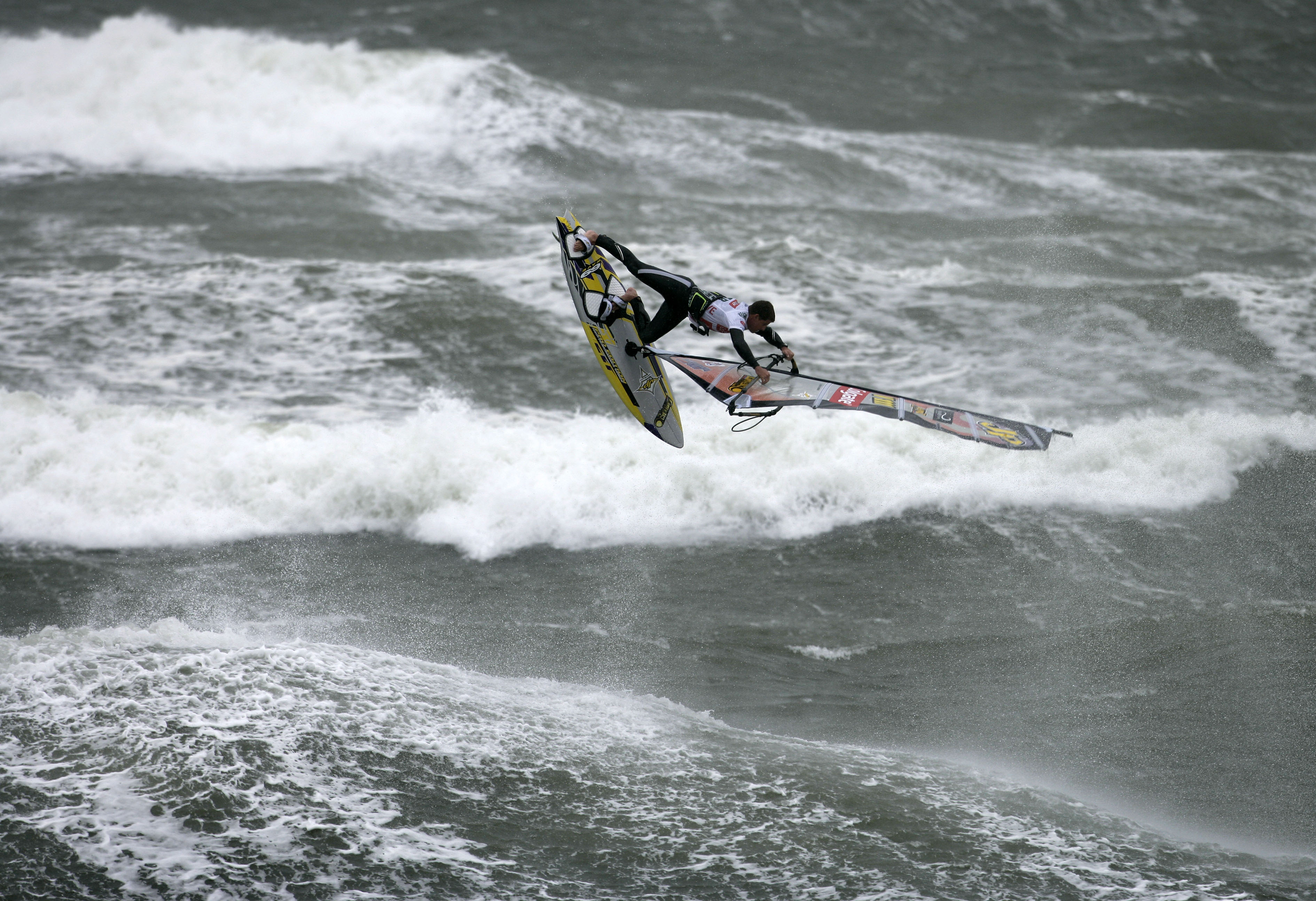 wave action, Windsurf World Cup Sylt 2009